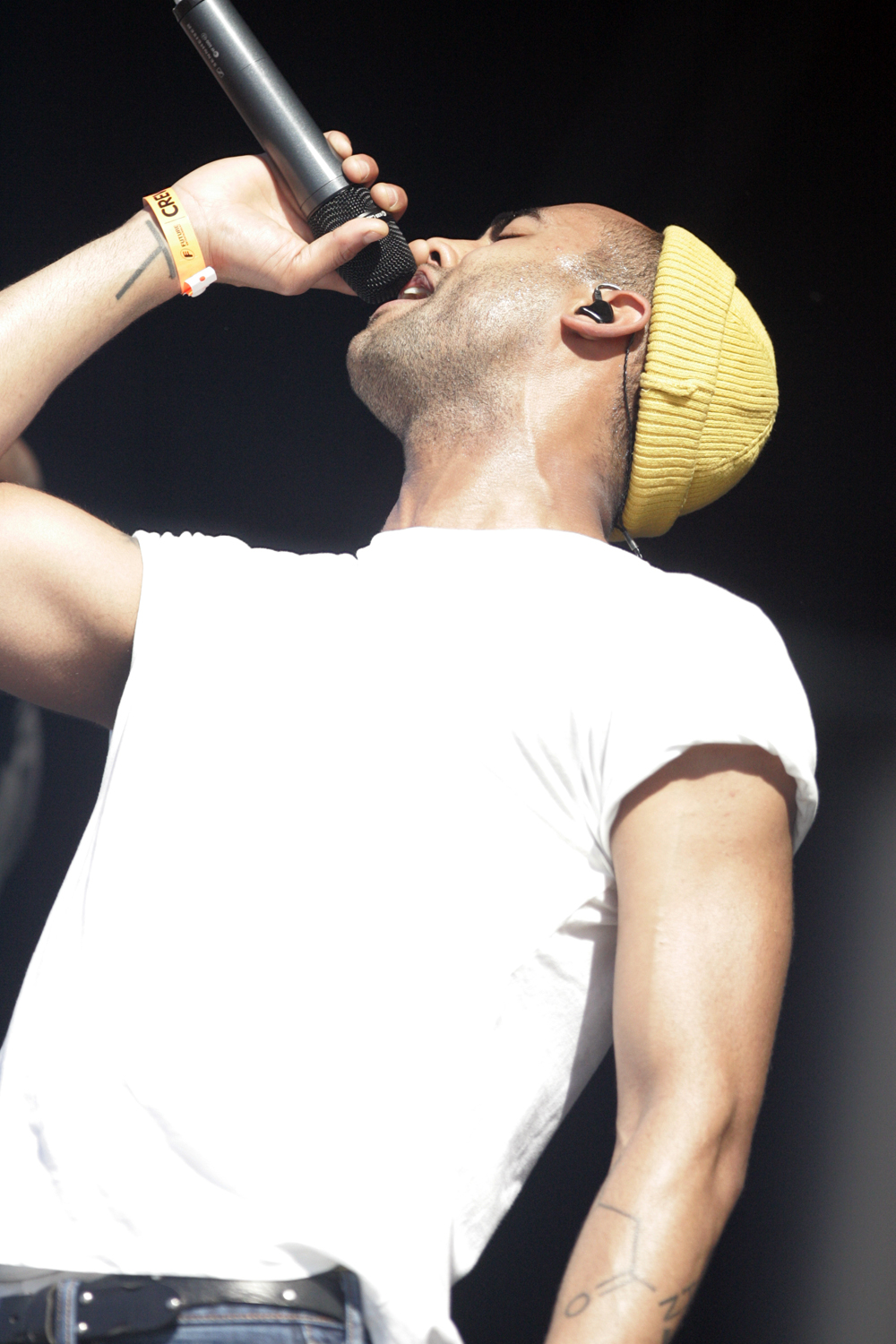 Future Music Festival, Randwick, Sydney, Australia...